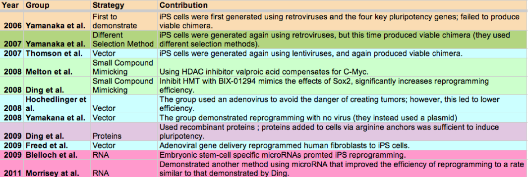 This table summarizes the key strategies and techniques used to develop iPS cells over the past half-decade. Rows of similar colors represents studies that used similar strategies for reprogramming.